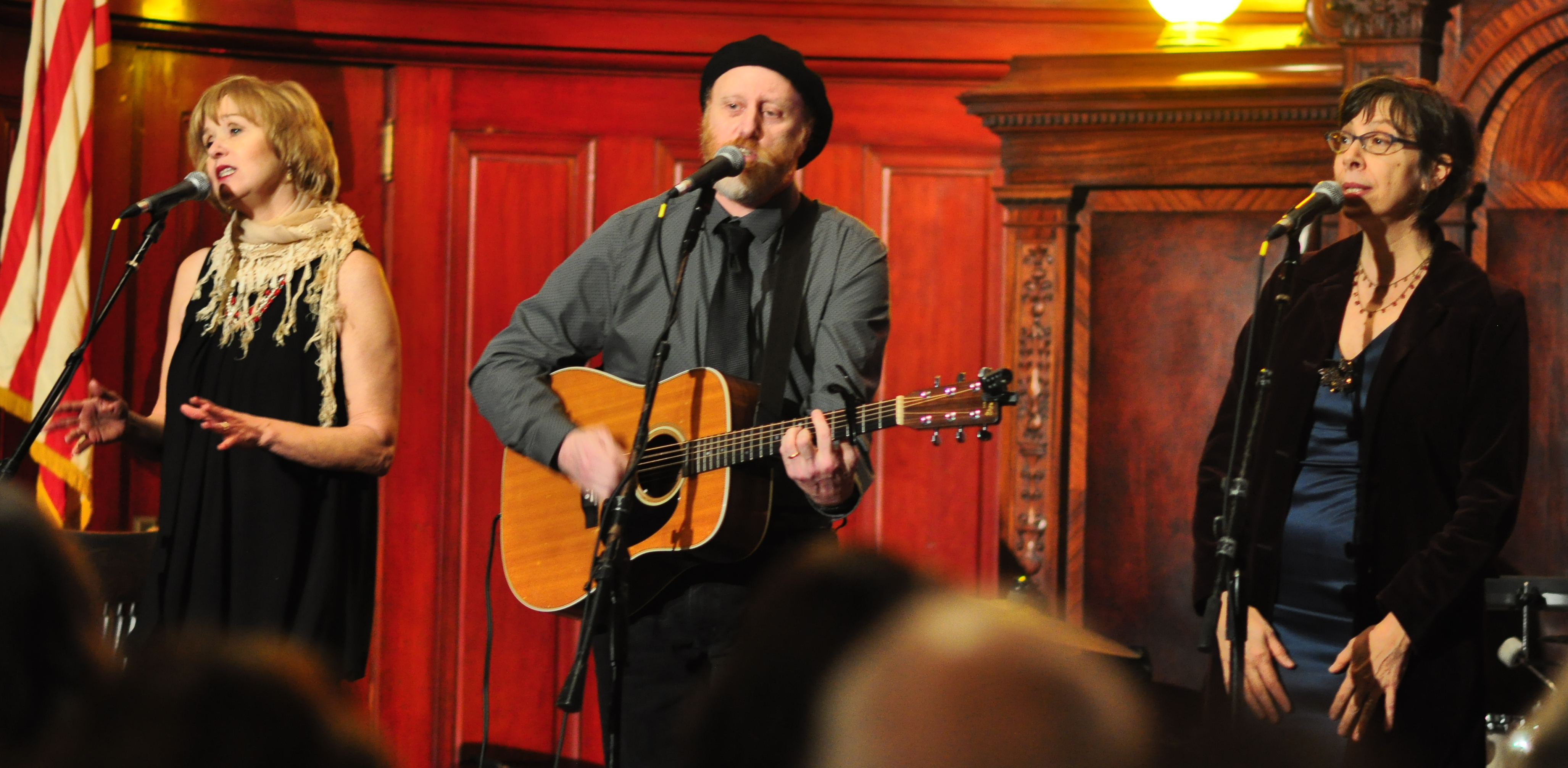 Uncle Bonsai (R-25) at Castle Hall, Pythian Temple, Tacoma, Washington as part of First Night Tacoma.